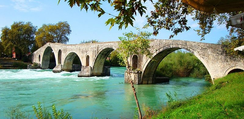 West side of Bridge of Arta